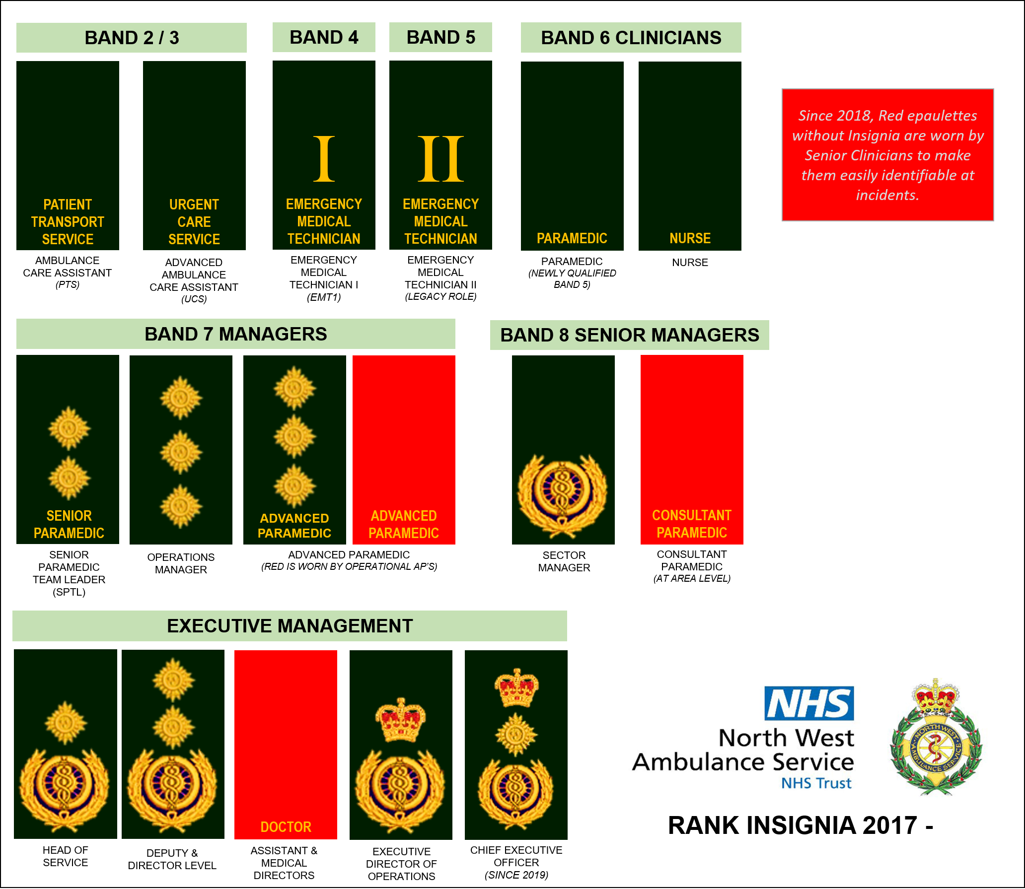 Rank Structure used by the North West Ambulance Service (NWAS) from 2017, although Dark Green Epaulettes began to be rolled out in 2015 alongside the new National NHS Ambulance Service uniform